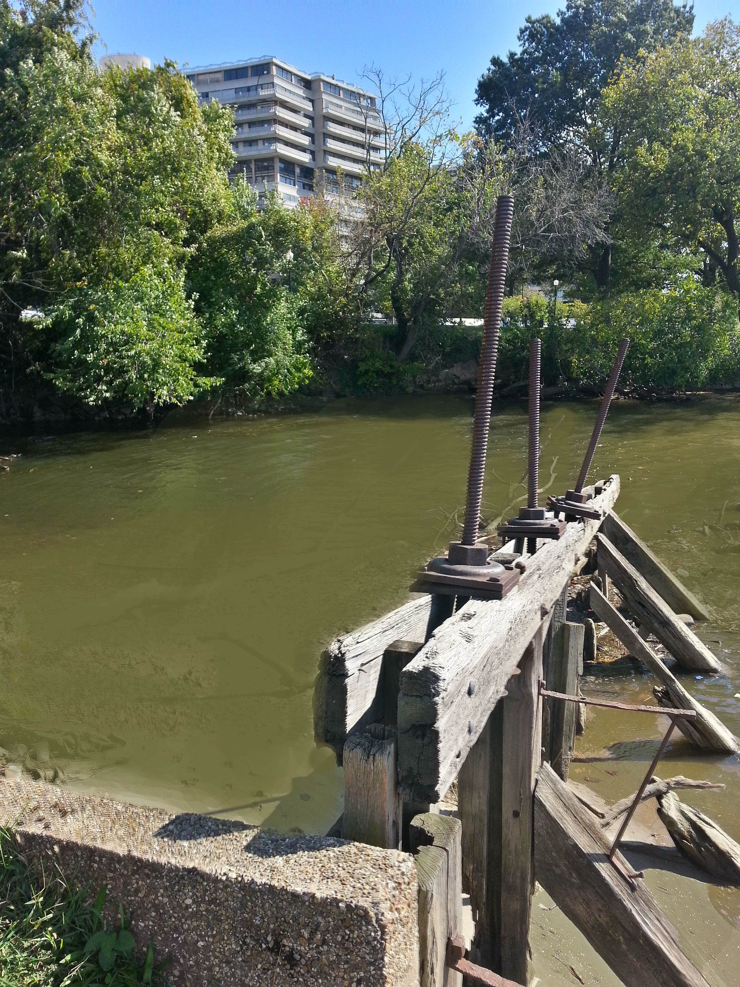 The file depicts the C&O Canal "Waste Weir #1" where the remains of the gravity dam across Rock Creek was (see Davies p. 2) with Watergate complex in background.